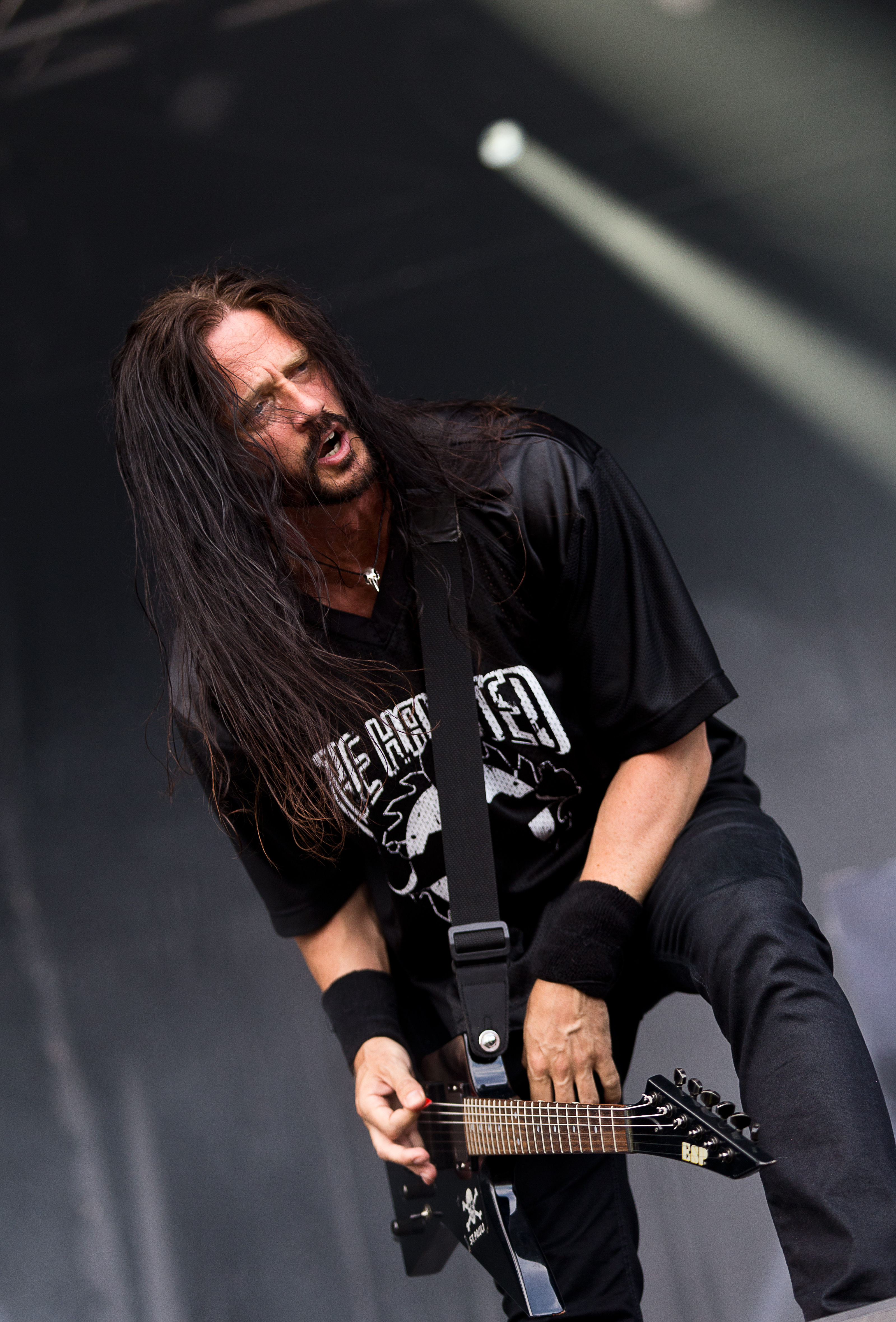 The Swedish thrash metal band The Haunted at the Rockharz Open Air 2015 in Ballenstedt/Germany.